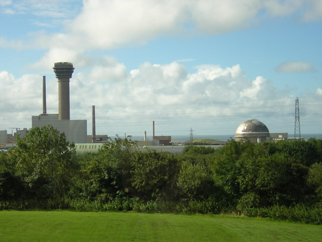 Sellafield view from Visitors Centre